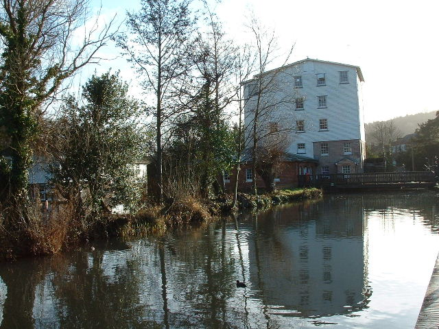 Crabble Mill. Looking SE